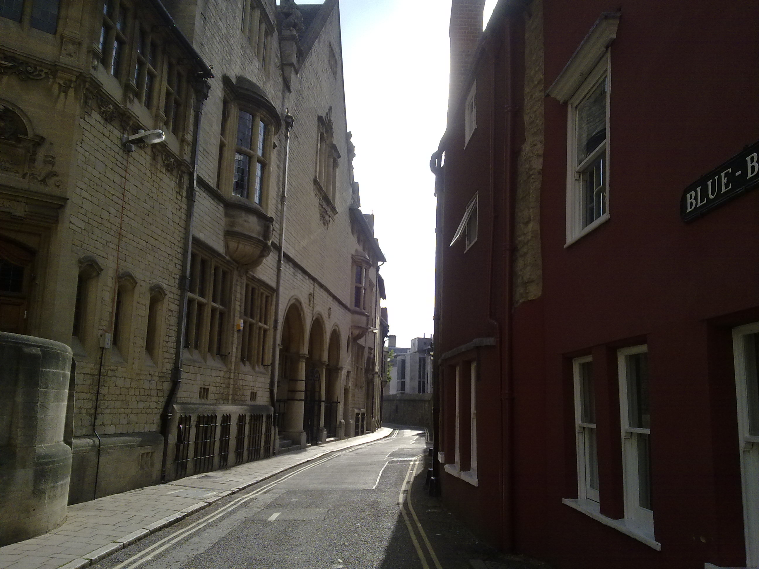 The St Aldate's Street entrance to Blue Boar Lane, Oxford (July 2009).